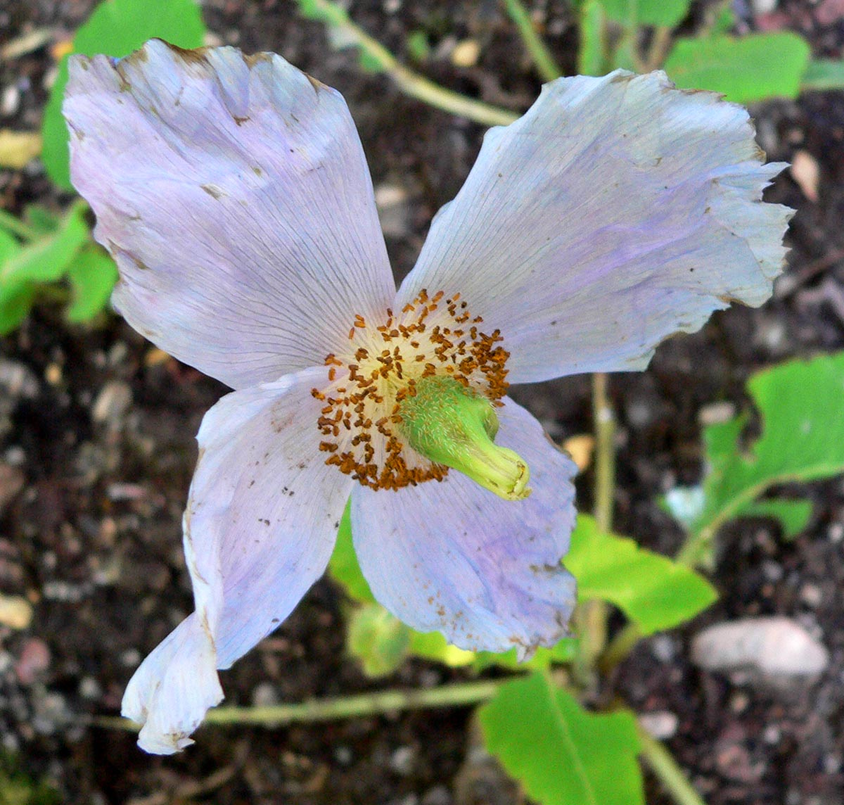 Photo of Meconopsis betonicifolia at VanDusen Botanical Garden